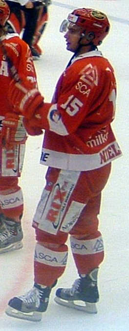 Ice hockey player Frans Nielsen of Timrå IK in E.ON Arena, Timrå, Sweden